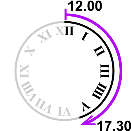 Time of day - afternoon.